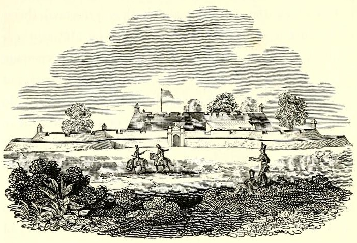 Caltura (1796) – now spelled Kalutara